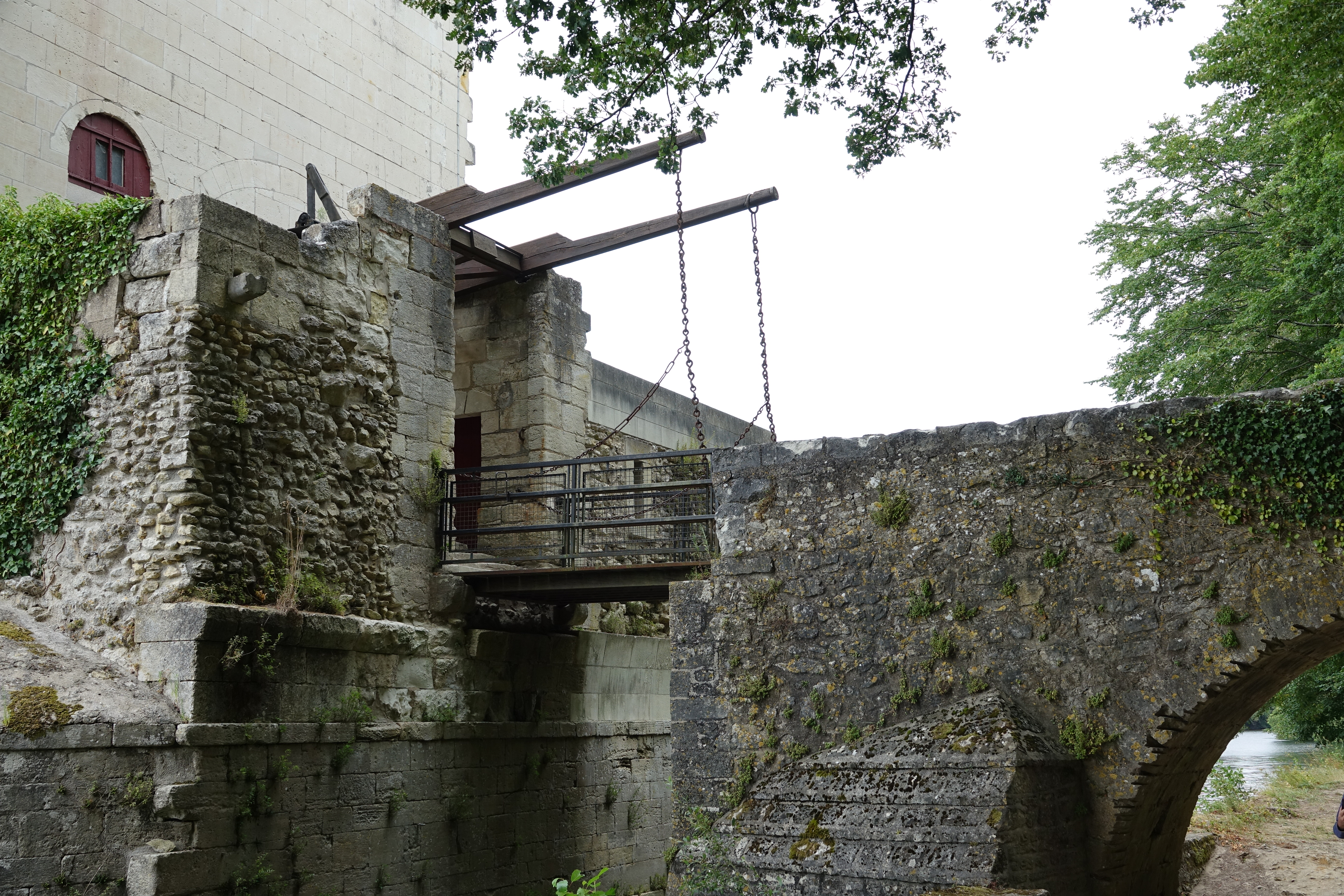 Drawbridge of château de Chenonceau (Chenonceaux, Indre-et-Loire, France).